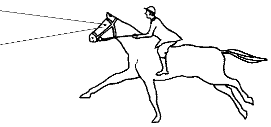 A horse's binocular vision in an extended frame